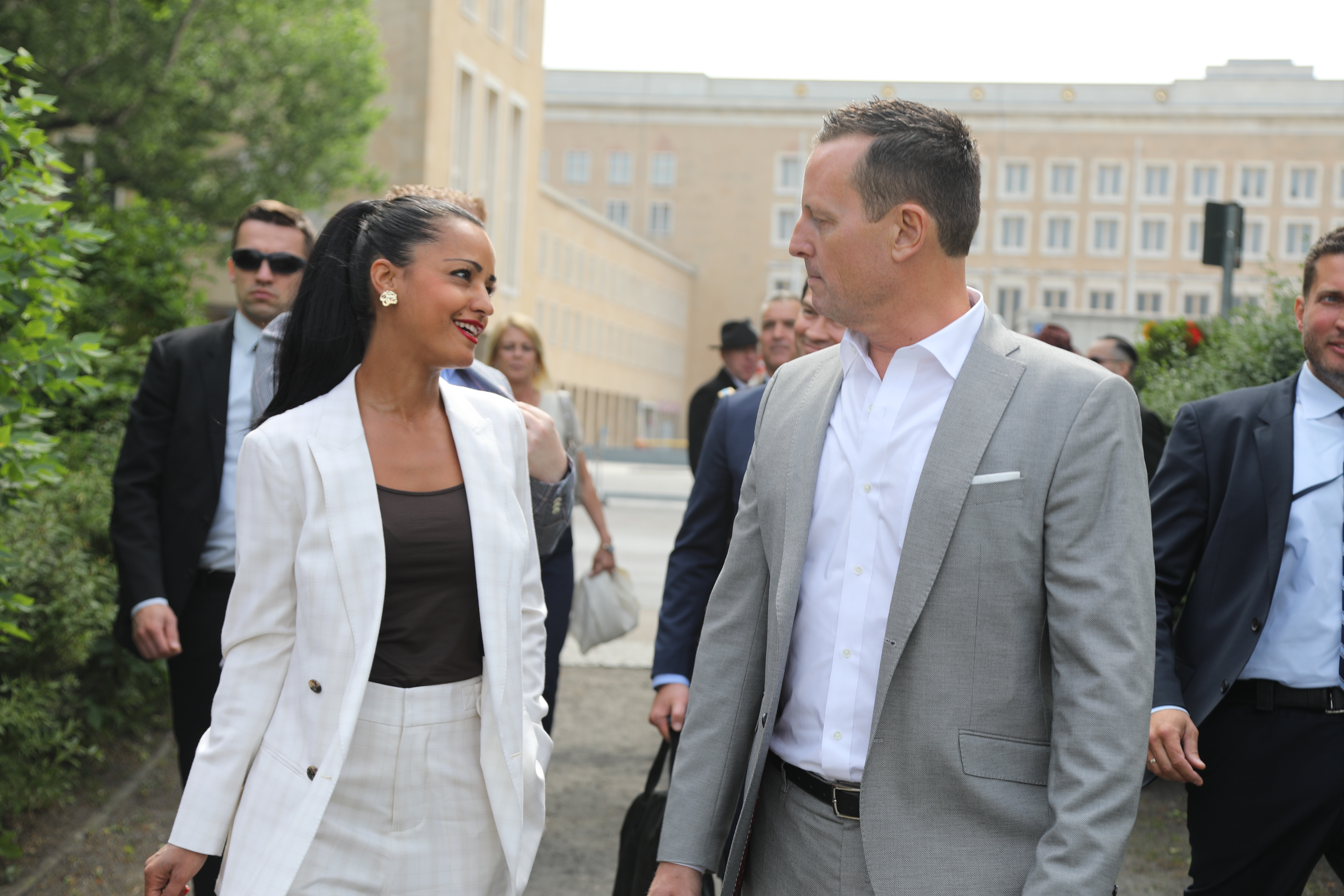 Ambassador Richard Grenell talks to Sawsan Chebli on arriviing at the Airlift Memorial